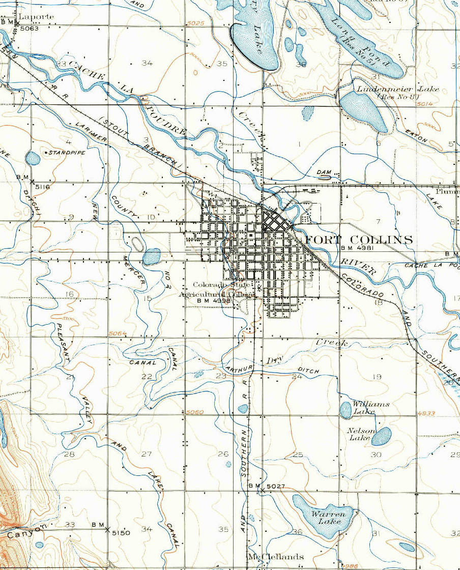 Colorado State University was at the edge of town